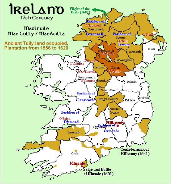 From Clan Tully Association